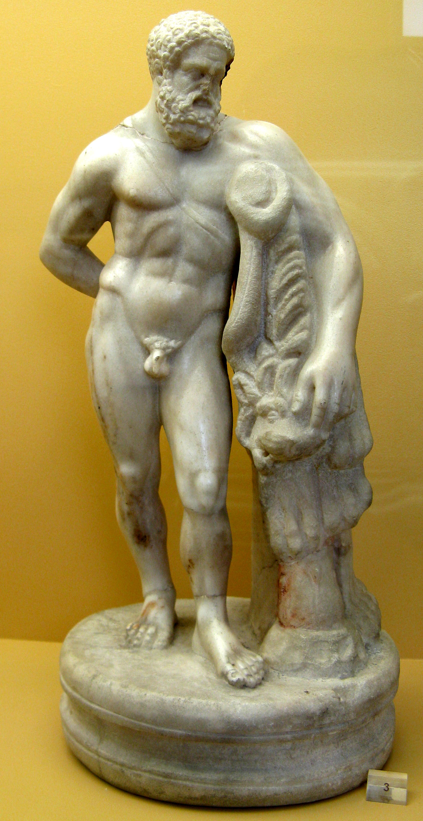 Statuette of Hercules at the Ancient Agora Museum (Athens)